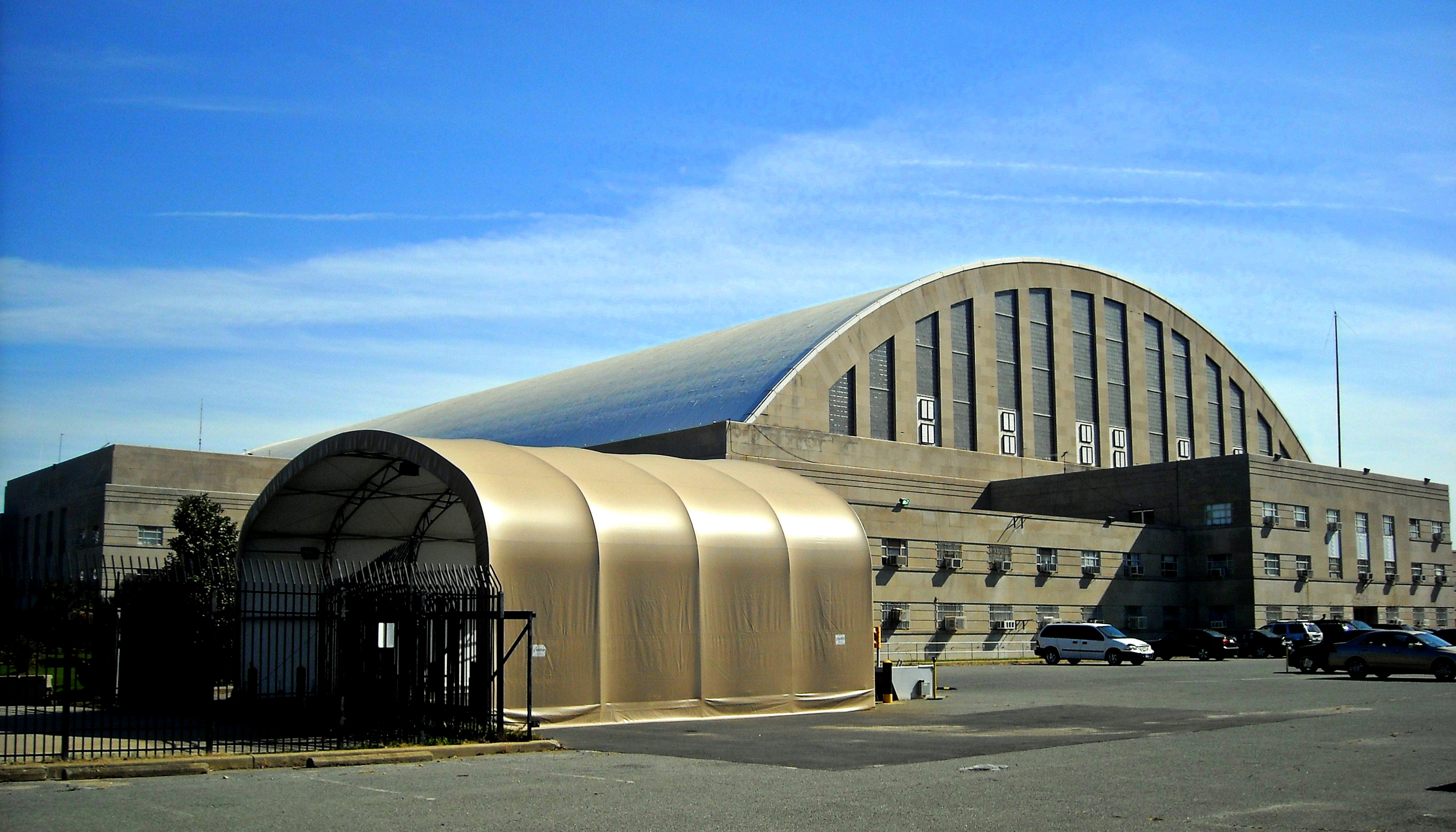 D.C. Armory located at 2001 East Capitol Street, NE in Washington